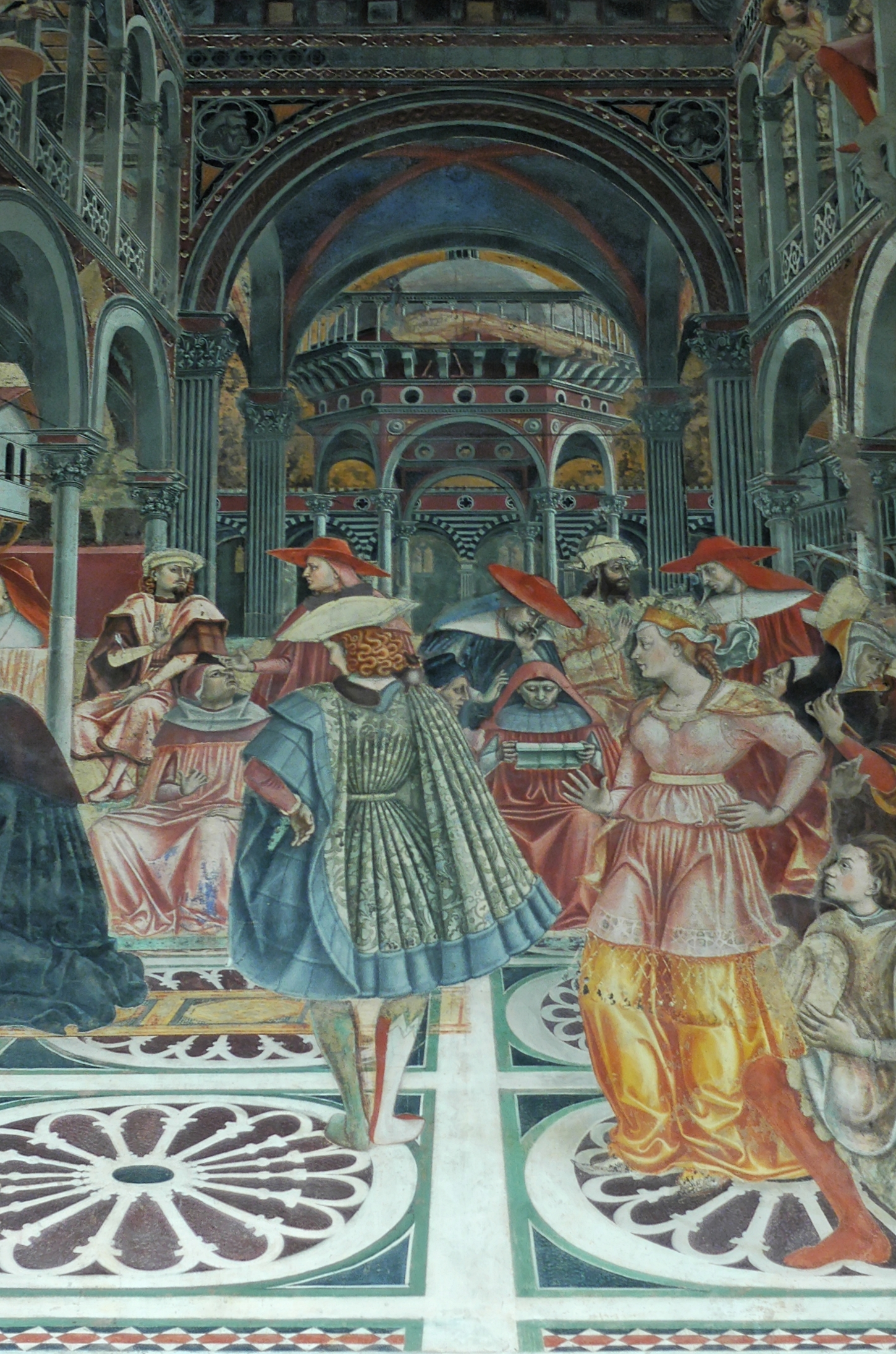 Pope Celestine III granting the privilege of autonomy to the Hospital, detail.